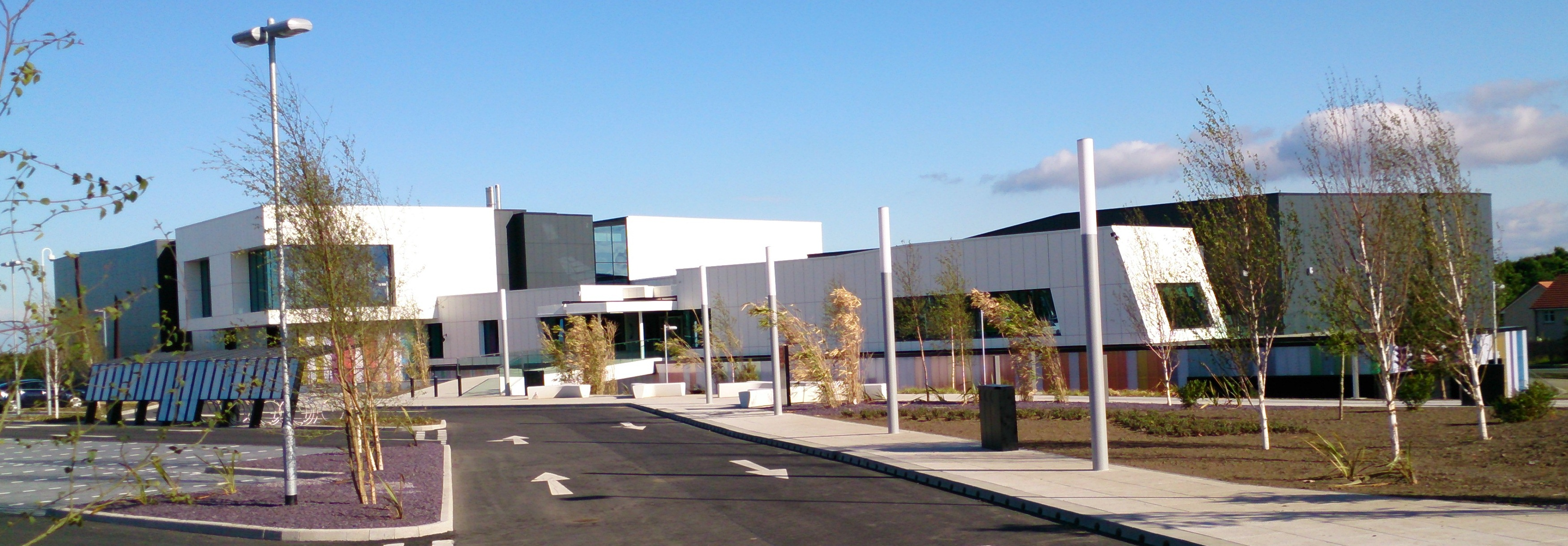 The new sports centre in Glenrothes opening July 2013.